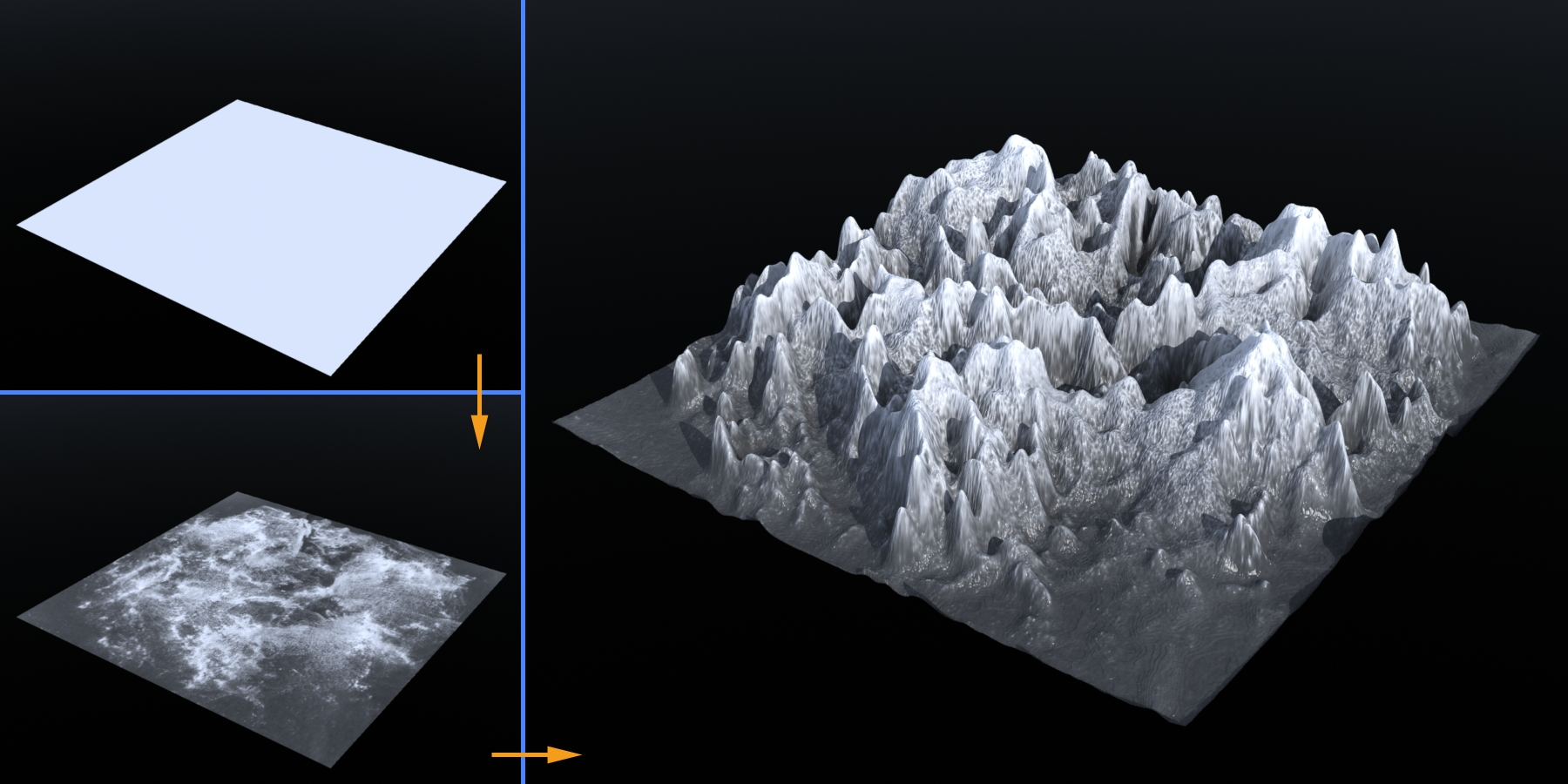 Displacement Mapping